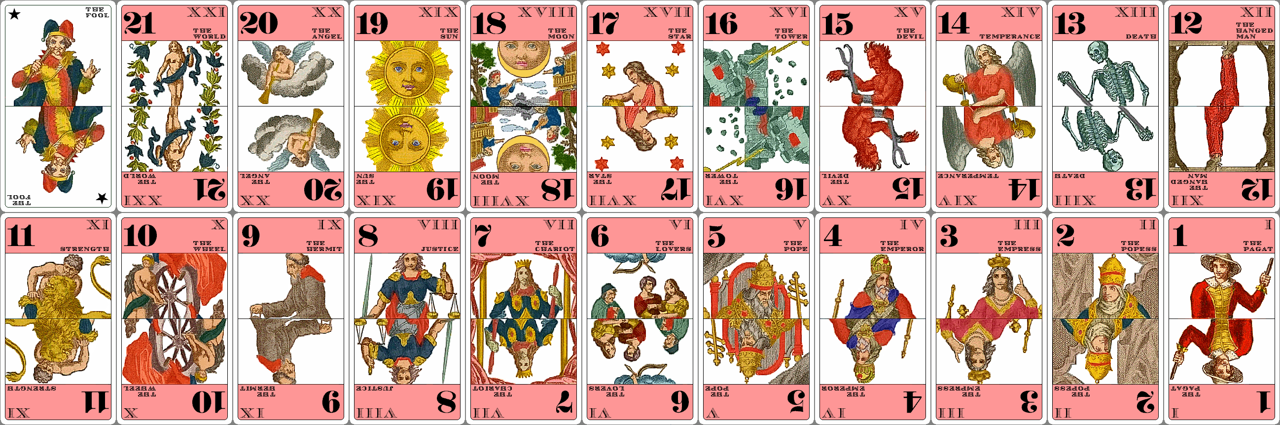 Tarot trumps for use in card games. Images colorized and optimized for card playing